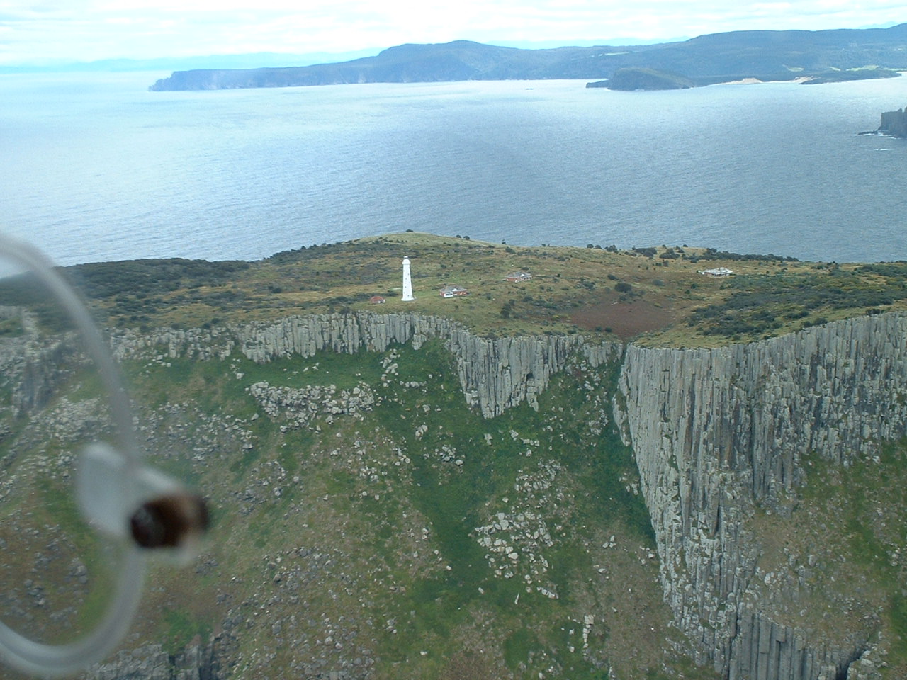 View of the lighthouse on Tasman Island, Tasmania. Taken from seaplane.